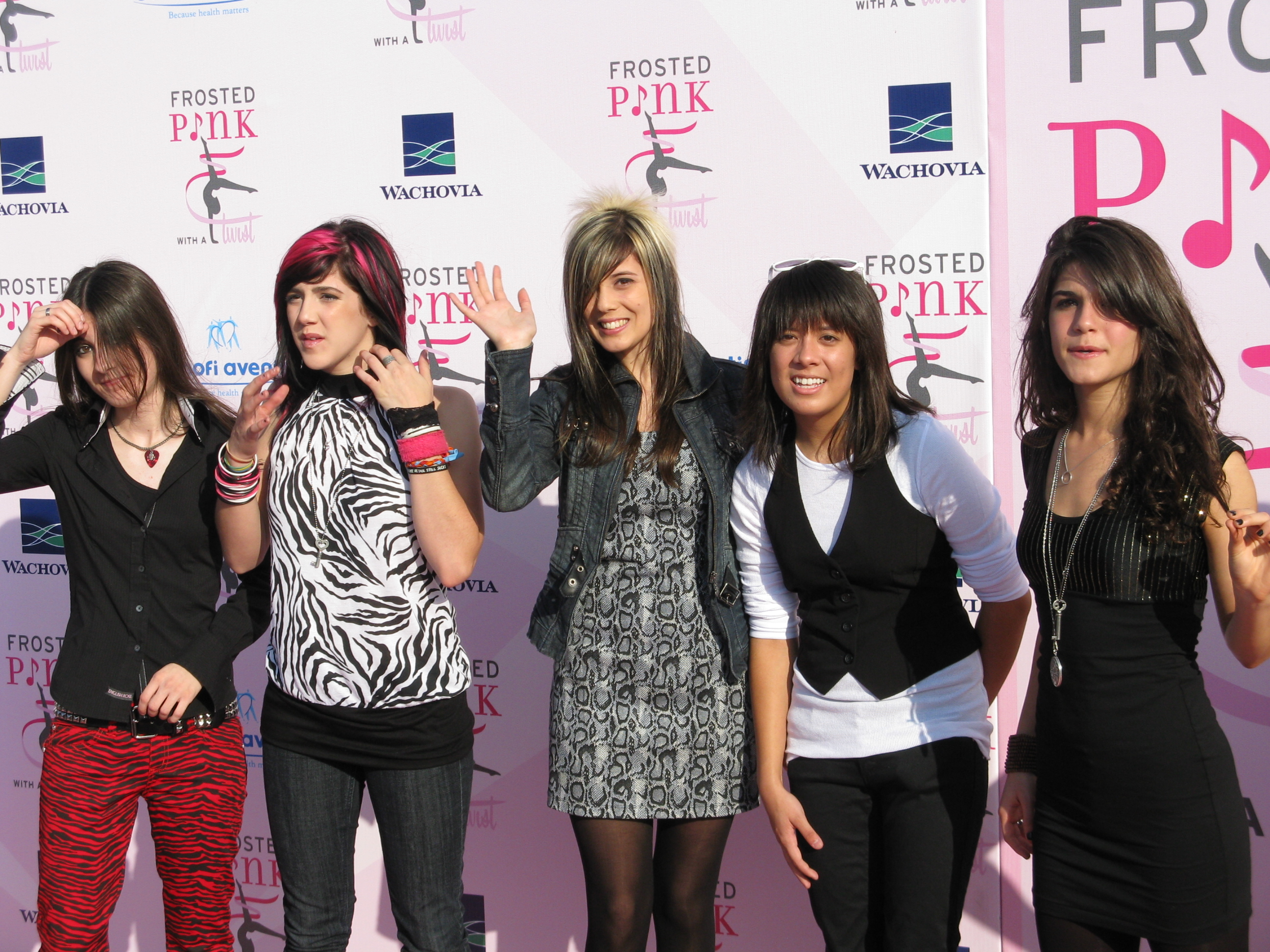 KSM at the Frosted Pink With a Twist 2008 Red Carpet on September 15, 2008 at Old Town, San Diego, CA.